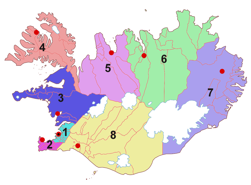 Regions of Iceland, made with the blank map of municipipal boundaries in Iceland. The enclosed white areas are glaciers, and not divided into municipal regions. 1 Capital Region Höfuðborgarsvæði 2 Southern Peninsula Suðurnes 3 Western Region Vesturland 4 Westfjords Vestfirðir 5 Northwestern Region Norðurland vestra 6 Northeastern Region Norðurland eystra 7 Eastern Region Austurland 8 Southern Region Suðurland